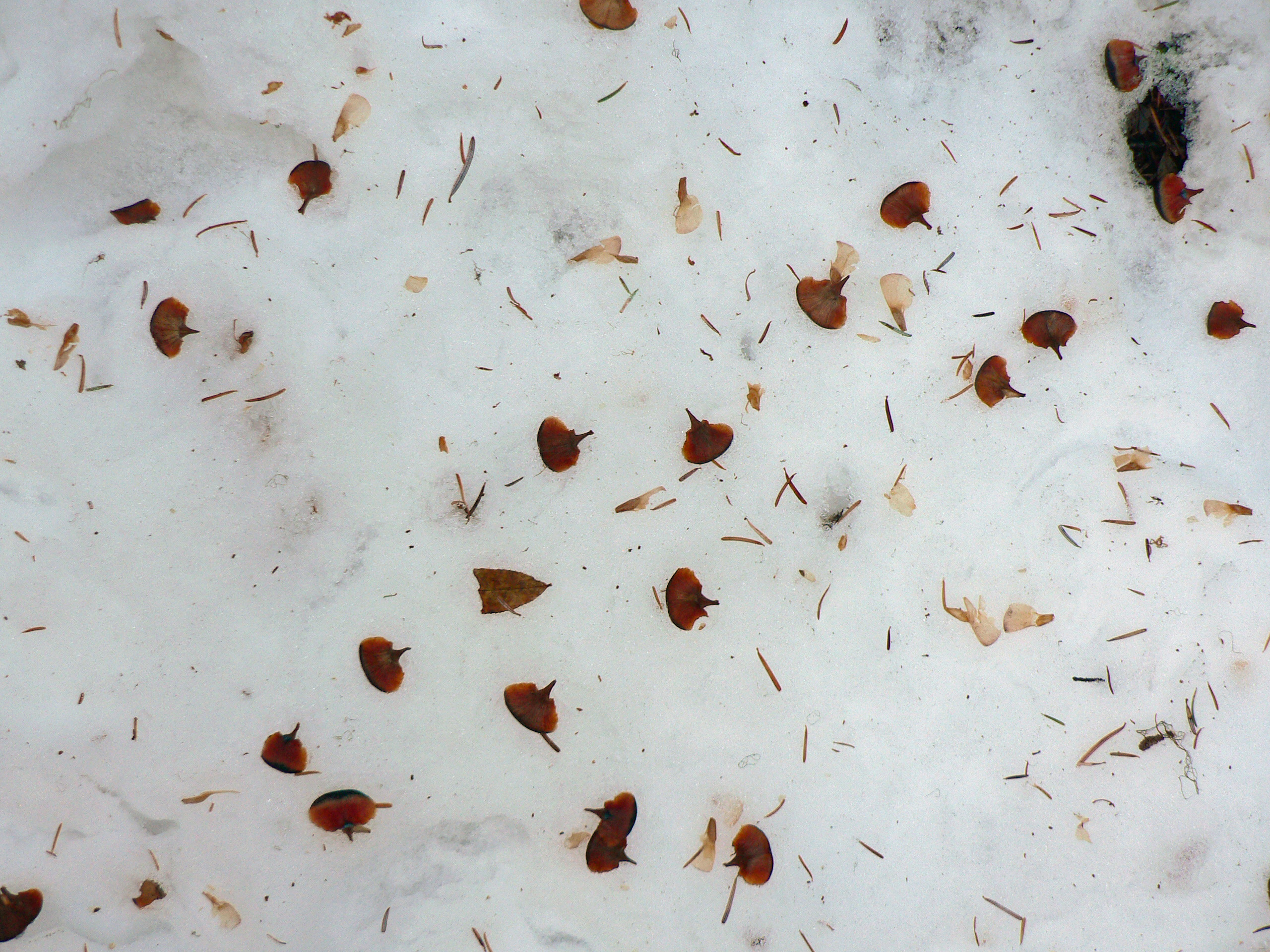 Pacific Silver Fir seeds and scales on early fall snow